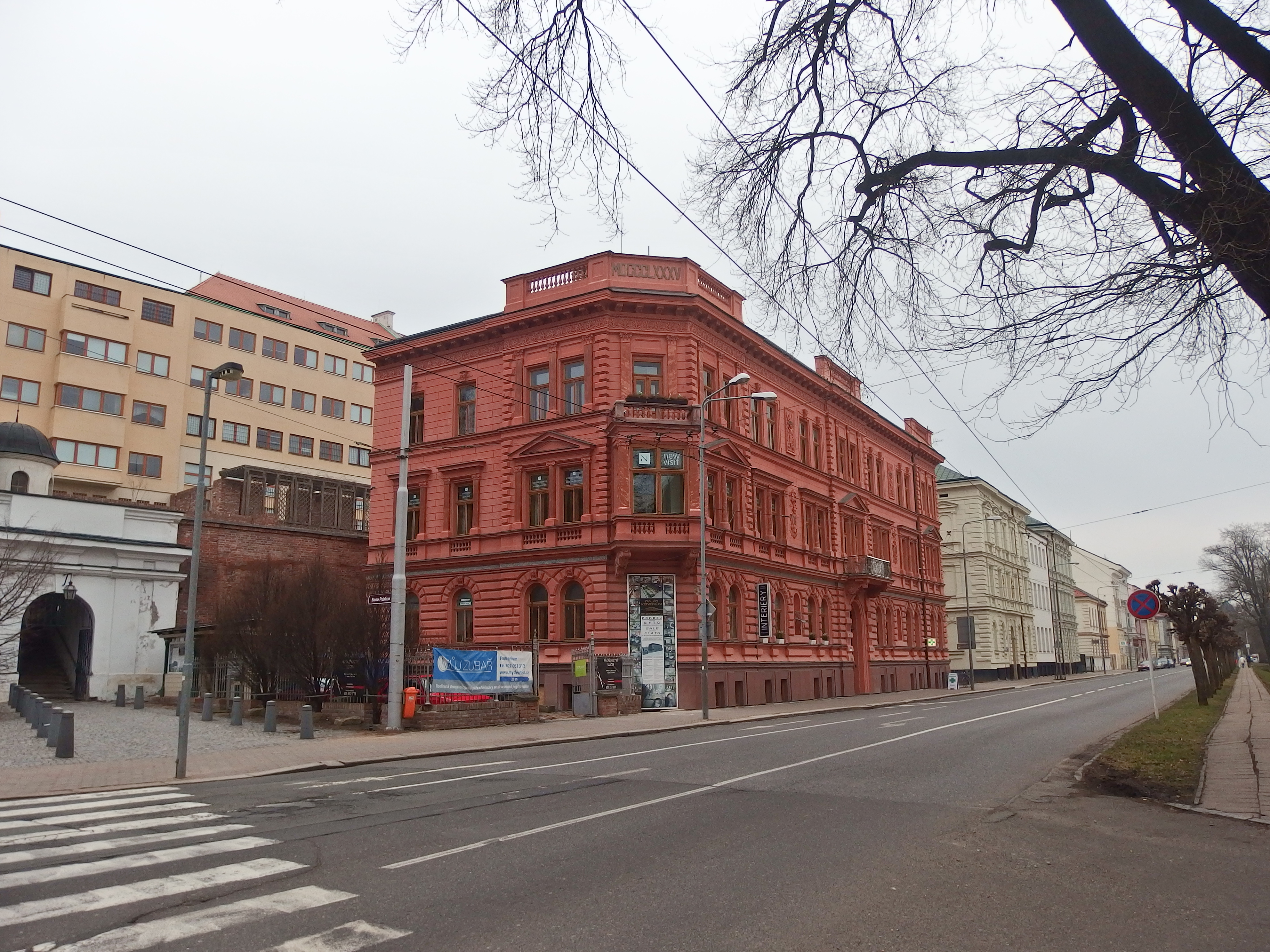 Hradec Králové, Czech Republic. Komenium Palace.